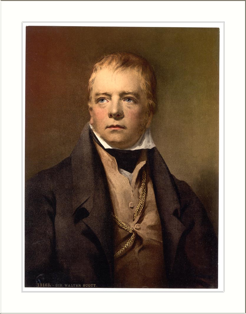 Portrait of Sir Walter Scott